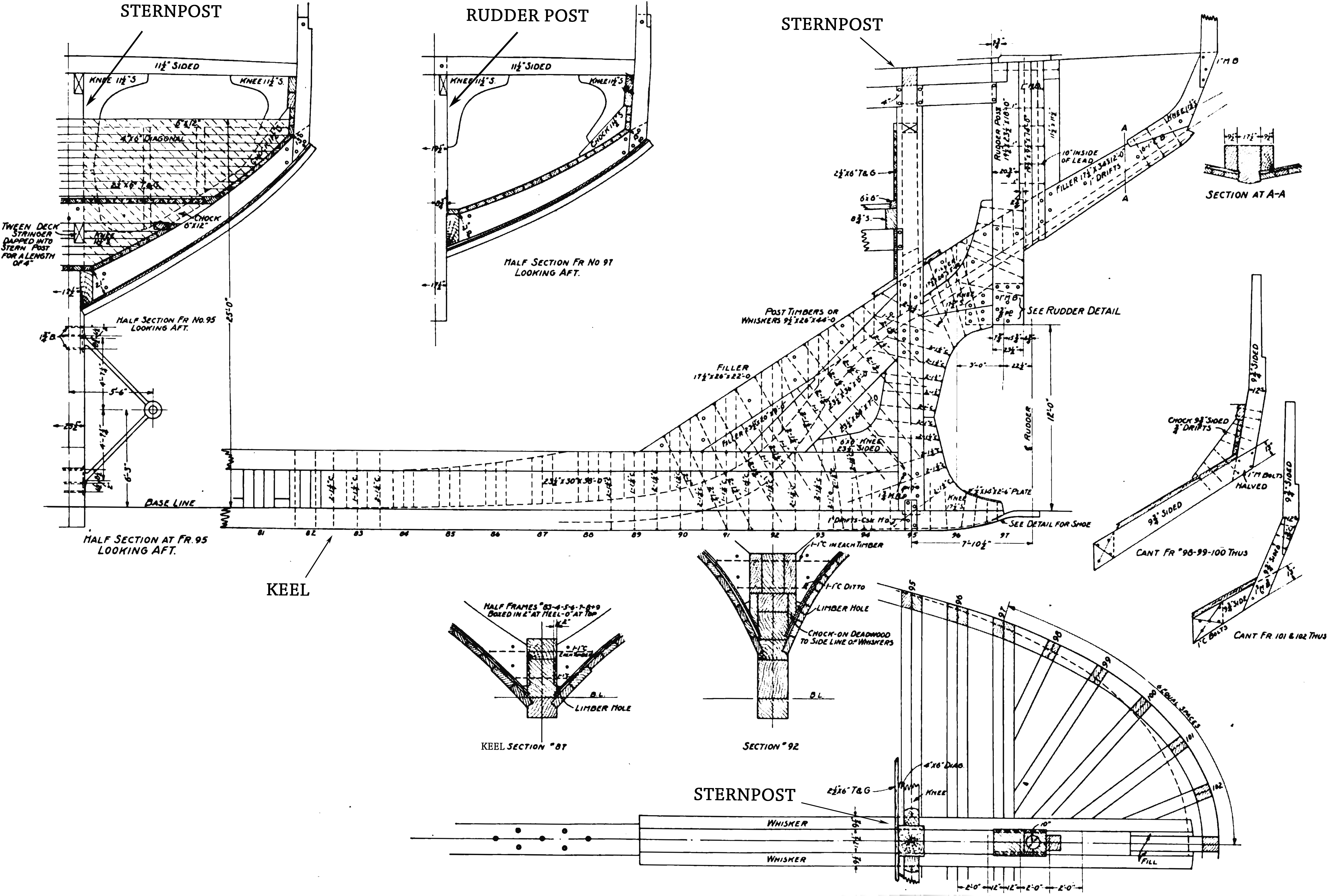 Original author: Harvey Cole Estep. Book title: How Wooden Ships are Built. P.59 , Figure 119. OCLC code is 561361622. Book was published in New York, NY in 1918 -- its copyright in the United States has expired and therefore it has entered the public domain. URL is